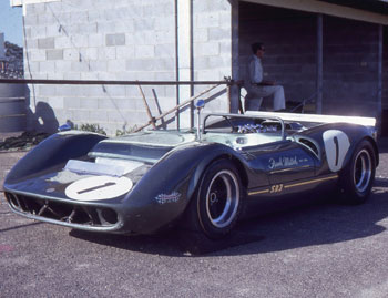 The Matich SR3 in the pits at Surfers Paradise International Raceway in mid-1968 - Photo by Graham Ruckert.